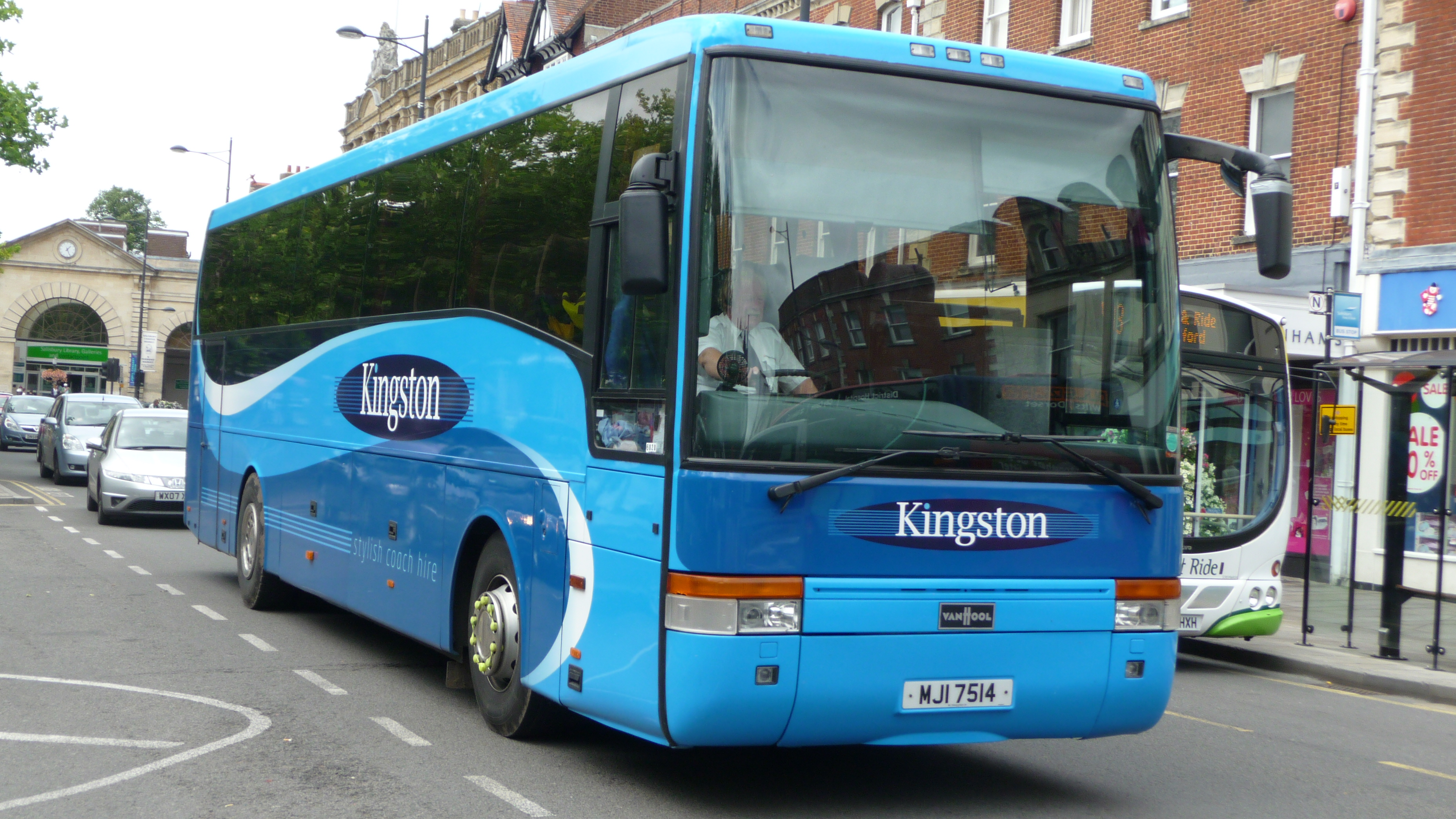 Kingston Coaches 6020 (MJI 7514, previously W184 CDN), a DAF SB3000/Van Hool Alizée T9, in Blue Boar Row, Salisbury, Wiltshire. Kingston Coaches is part of Tourist Group, itself the coaching division of bus company Wilts & Dorset. The coach's fleet number fits into the group numbering system. This is the new Kingston Coaches livery, with the base colours used by all of Wilts & Dorset's coach divisions.